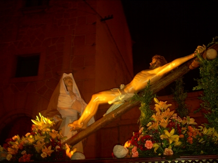 Semana Santa in Ávila